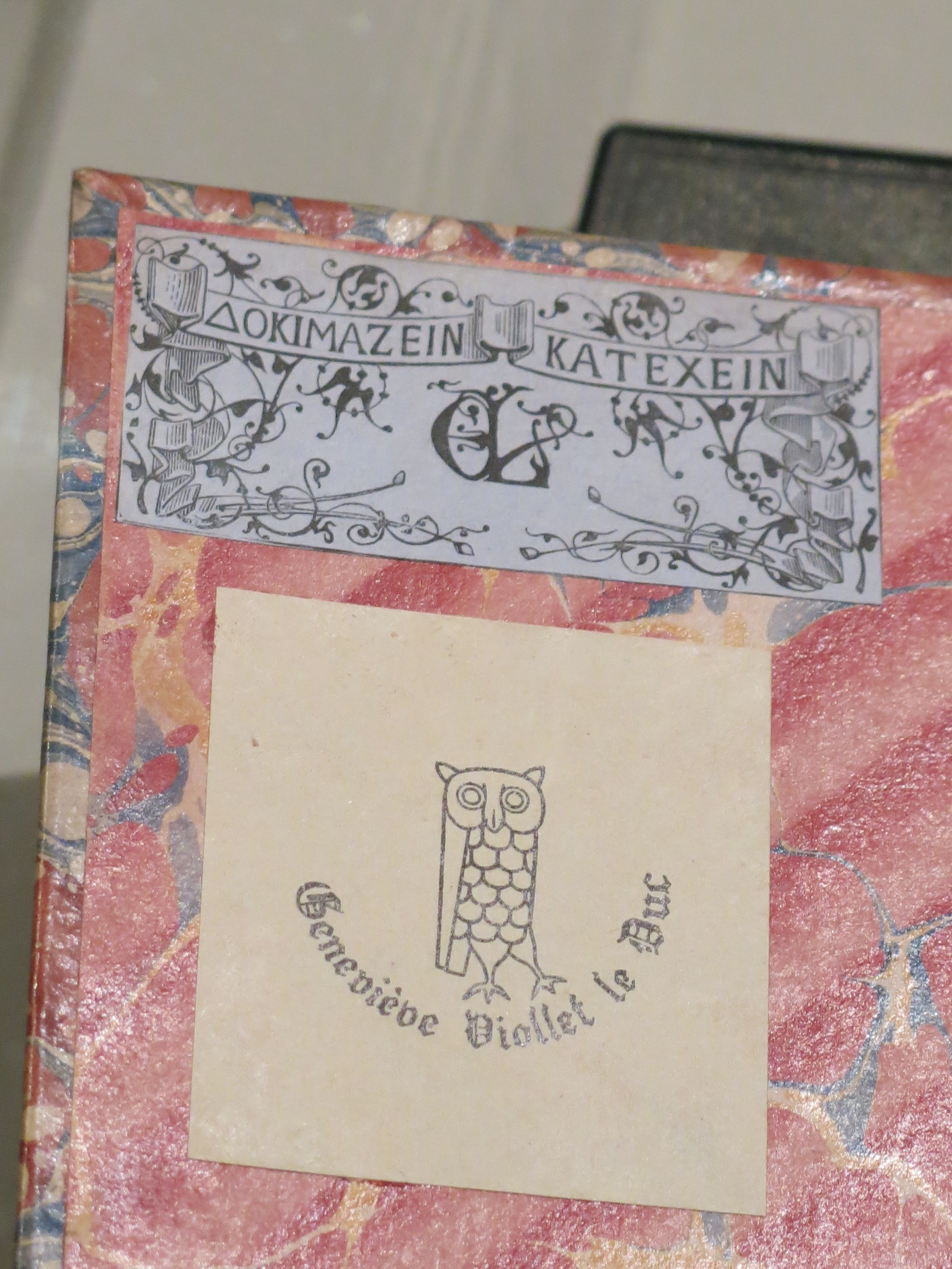 Ex-libris of Eugène Viollet-le-Duc. The first one on blue background is the monogram EVL of Viollet-le-Duc with its Greek motto : Examine all things and hold fast to what is good (Saint-Paul, Thessalonicians, 5-21). The second one is the one of his great grand-daughter, with the "grand duc" owl, bird symbol of the family. Charenton-le-Pont, médiathèque de l'architecture et du patrimoine, 2012/024-125(5).